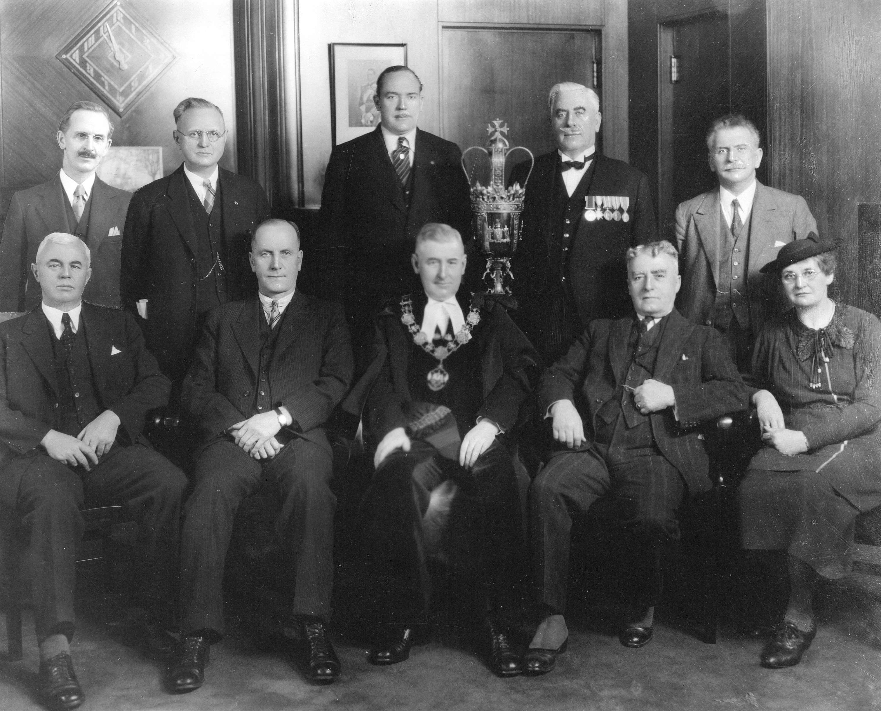 Vancouver City Council in the Mayor's office 1937. Composite group portrait showing: seated: Alderman Fred Crone, Alderman J.W. Cornett, Mayor George C. Miller, Alderman Thomas H. Kirk, Alderwoman Helena Gutteridge; standing: Alderman A. Hurry, Alderman R.P. Pettipiece, Alderman H.D. Wilson, Macebearer Alex McKay and Alderman John Bennett